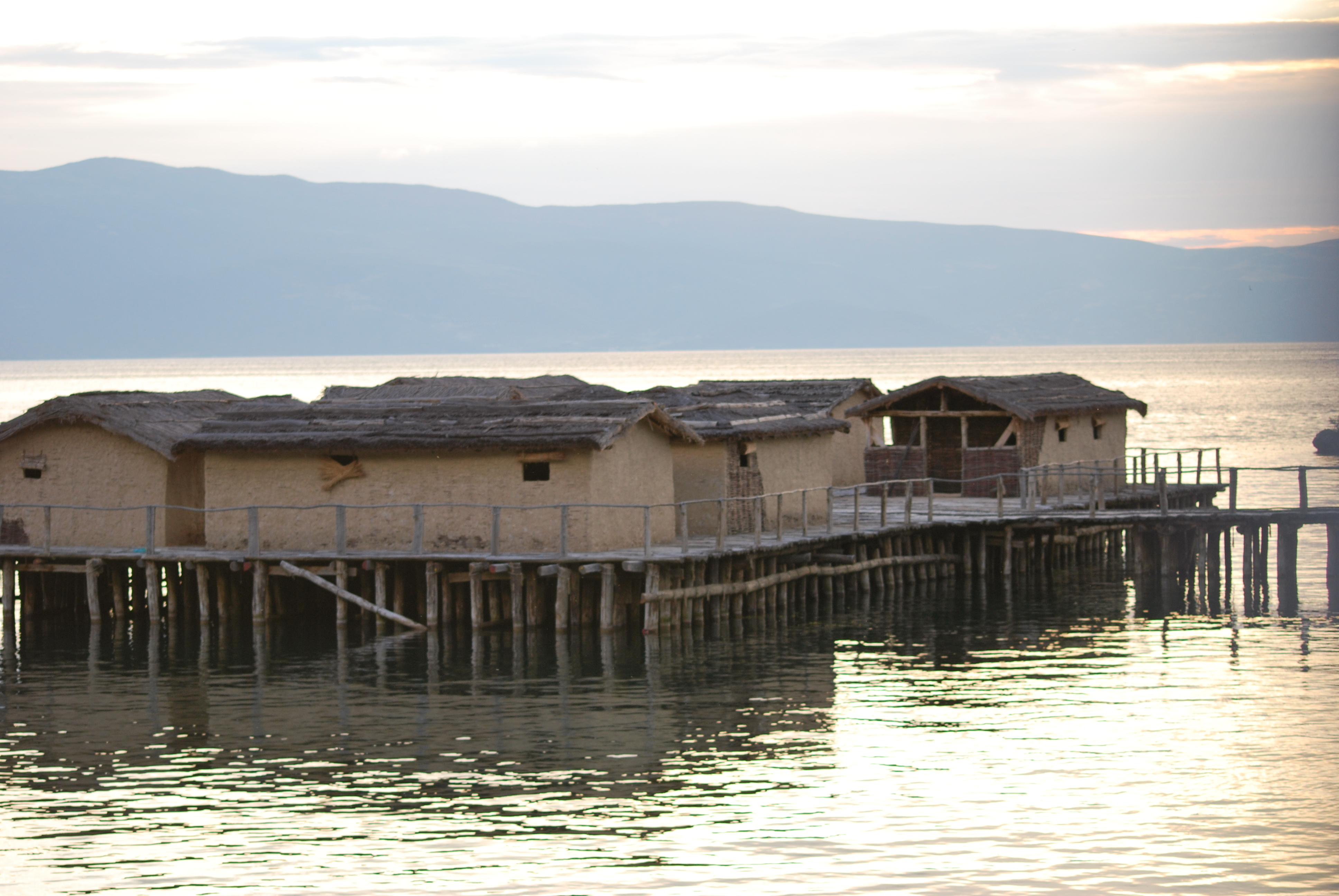 Lake Ohrid, Macedonia